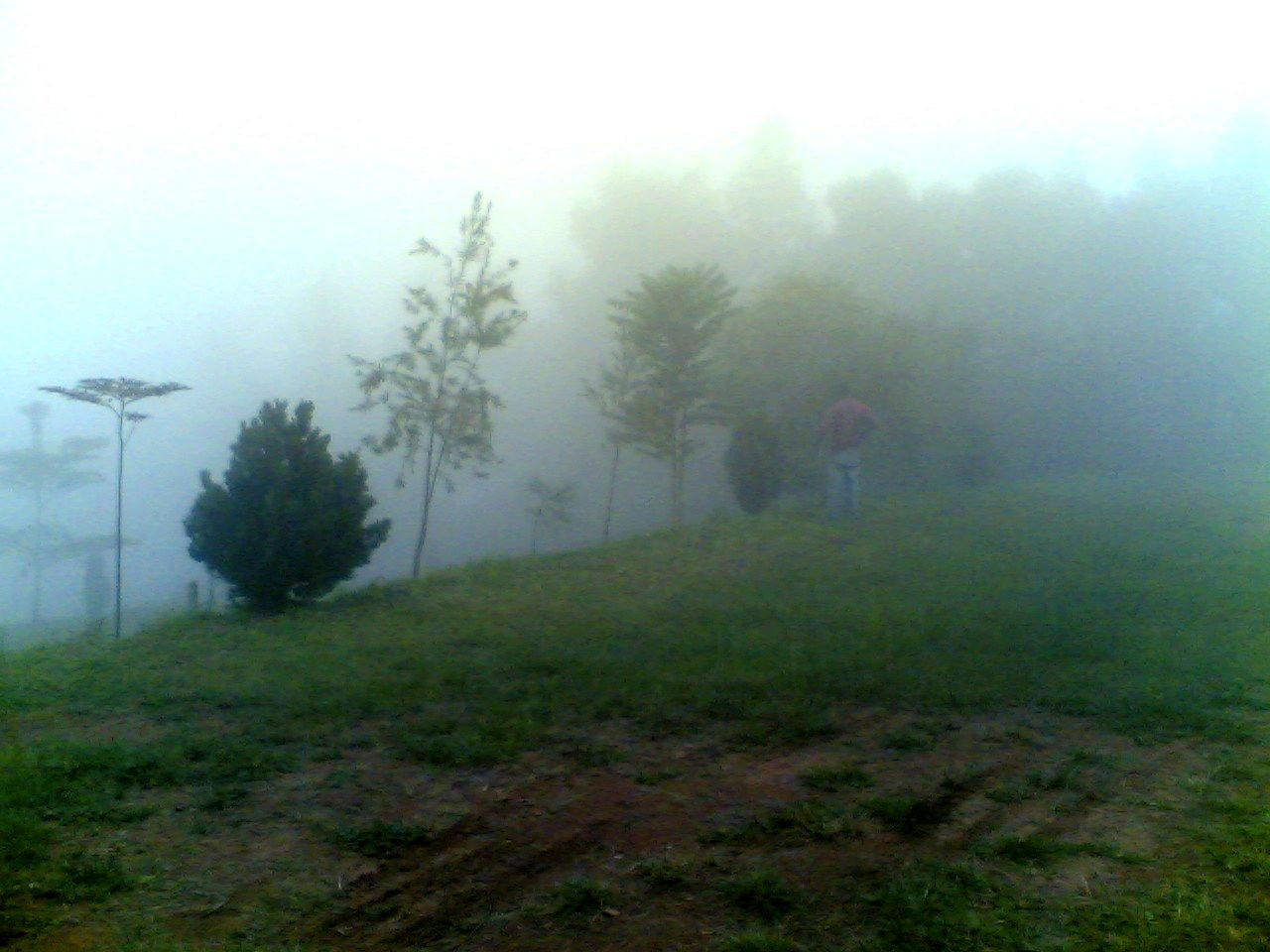 Irente covered in a blanket of fog in Lushoto District, Tanga Region, Tanzania.